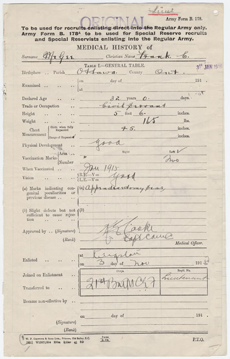 Frank McGee's medical history form, from his enlistment in the Army. McGee's vision is described as "good" for the right eye, while nothing is written for the left eye